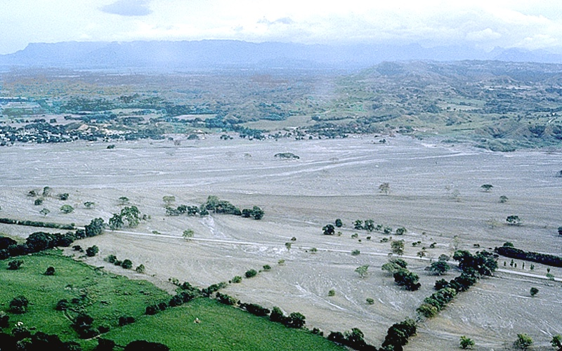 Río Lagunillas, former location of Armero. An explosive eruption from Ruiz's summit crater on November 13, 1985, at 9:08 p.m. generated an eruption column and sent a series of pyroclastic flows and surges across the volcano's broad ice-covered summit. Pumice and meltwater produced by the hot pyroclastic flows and surges swept into gullies and channels on the slopes of Ruiz as a series of small lahars. Flowing downstream from Ruiz at an average speed of 60 km per hour, lahars eroded soil, loose rock debris and stripped vegetation from river channels. By incorporating water and debris from along river channels, the lahars grew in size as they moved away from the volcano--some lahars increased up to 4 times their initial volumes. Within four hours of the beginning of the eruption, lahars had traveled 100 km and left behind a wake of destruction: more than 23,000 people killed, about 5,000 injured, and more than 5,000 homes destroyed along the Chinchiná, Gualí, and Lagunillas rivers. Hardest hit was the town of Armero at the mouth of the Río Lagunillas canyon, which was located in the center of this photograph. Three quarters of its 28,700 inhabitants perished. (Amalgamation of sentences taken verbatim from source.)